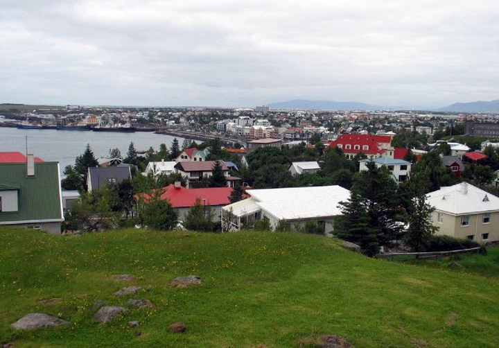 A photo that shows the town center of Hafnarfjörður